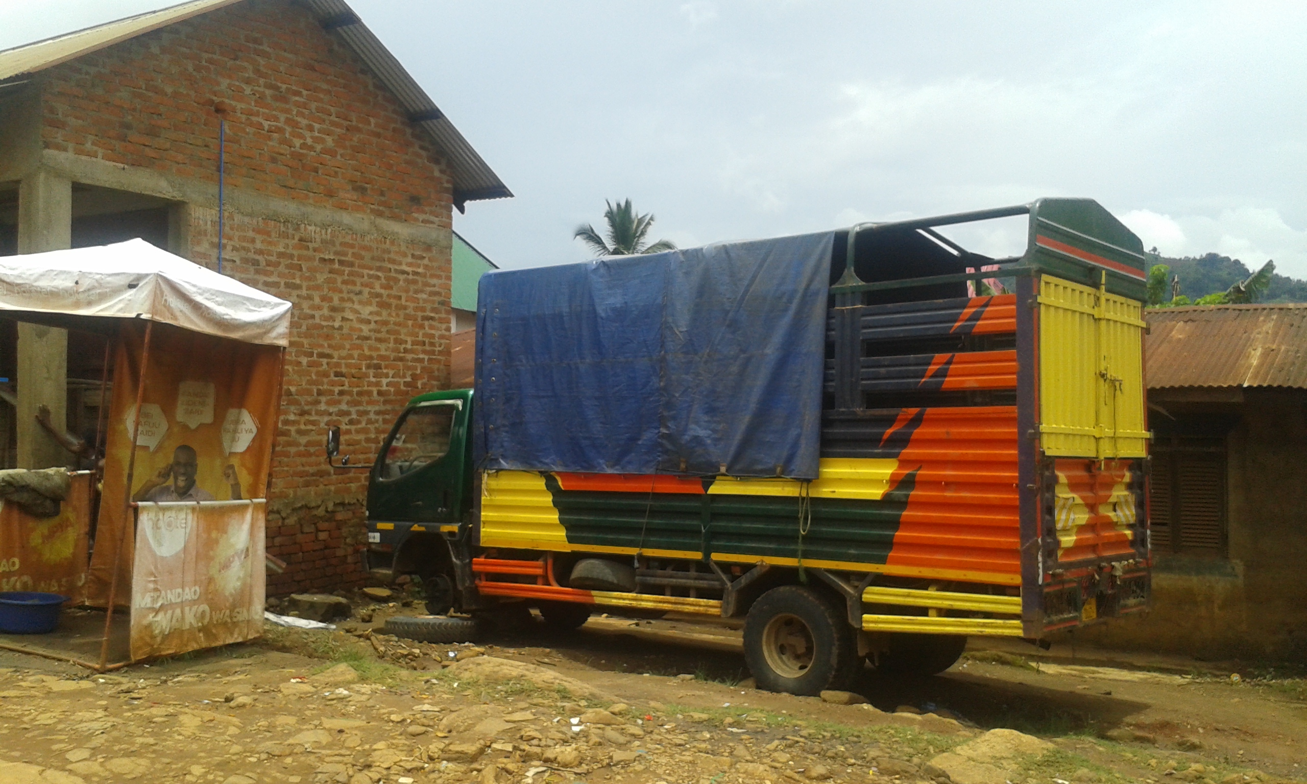 End-of-life (?) vehicle in a village near Morogoro, Tanzania This is an image with the theme "Africa on the Move or Transport" from: Tanzania